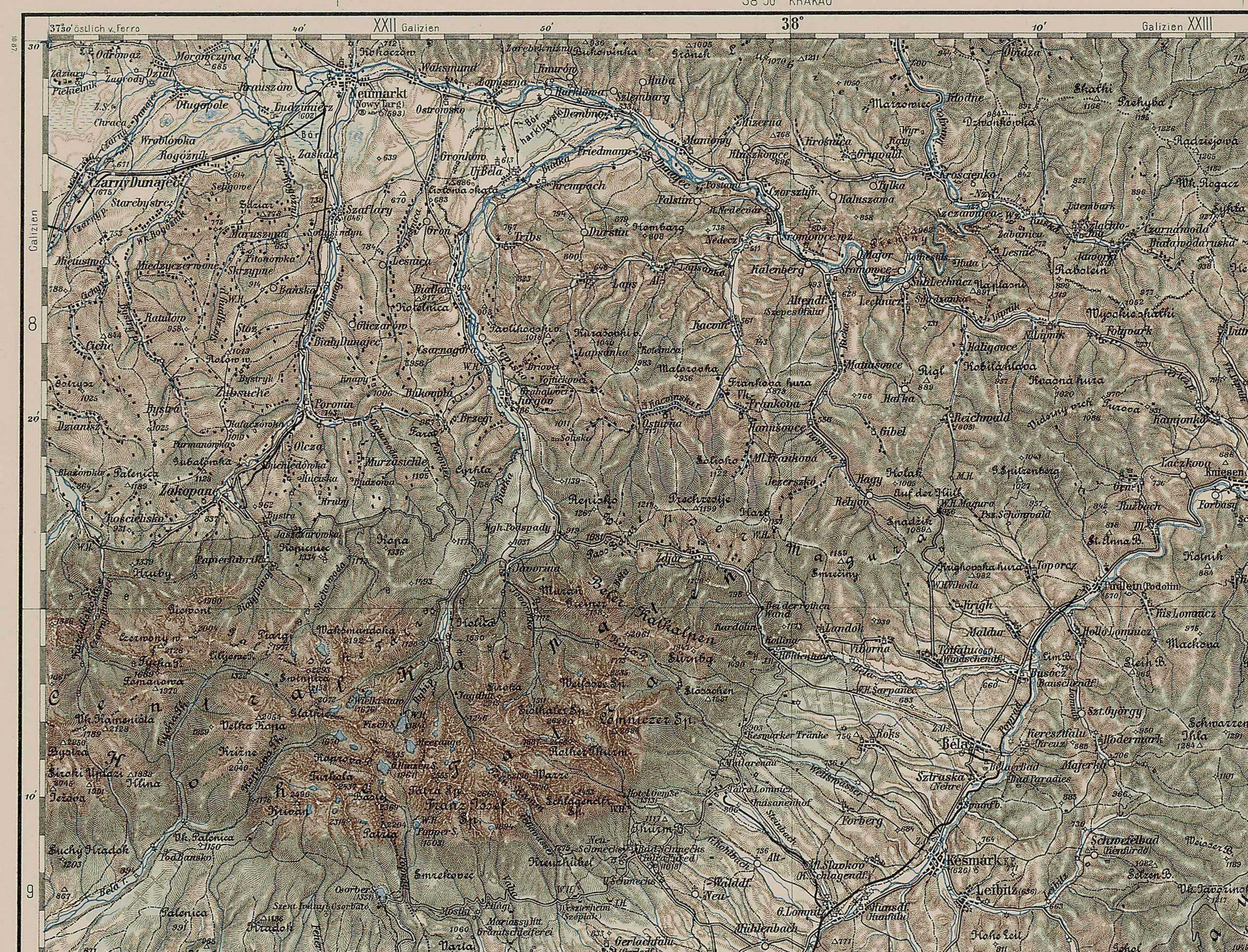 Fragment of Leutschau (Blatt 38-49 Leutschau) from 1914 of Austrian Generalkarte von Mitteleuropa in the 1:200.000 scale, showing Tatry